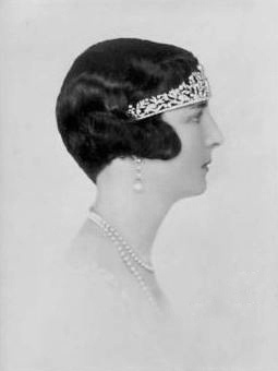 Princess Anne of Orléans, Duchess of Aosta (1906-1986)